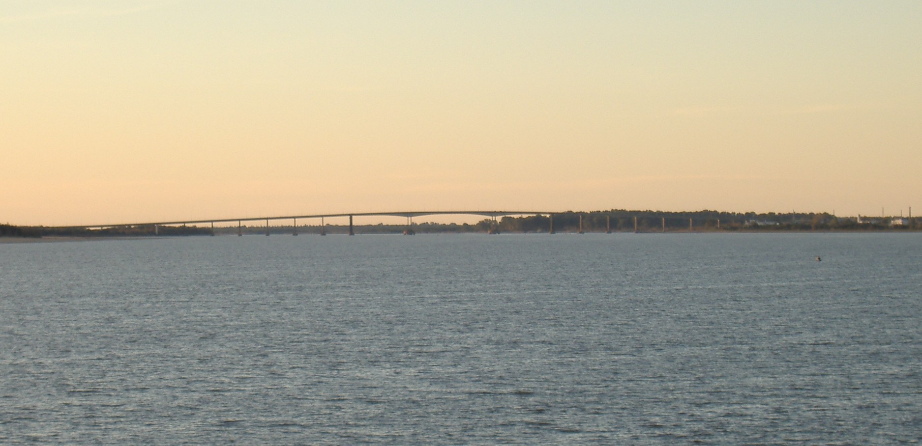 The international General Artigas Bridge, from Paysandú, Uruguay, crossing the Uruguay River west, to Colón, Entre Ríos, Argentina